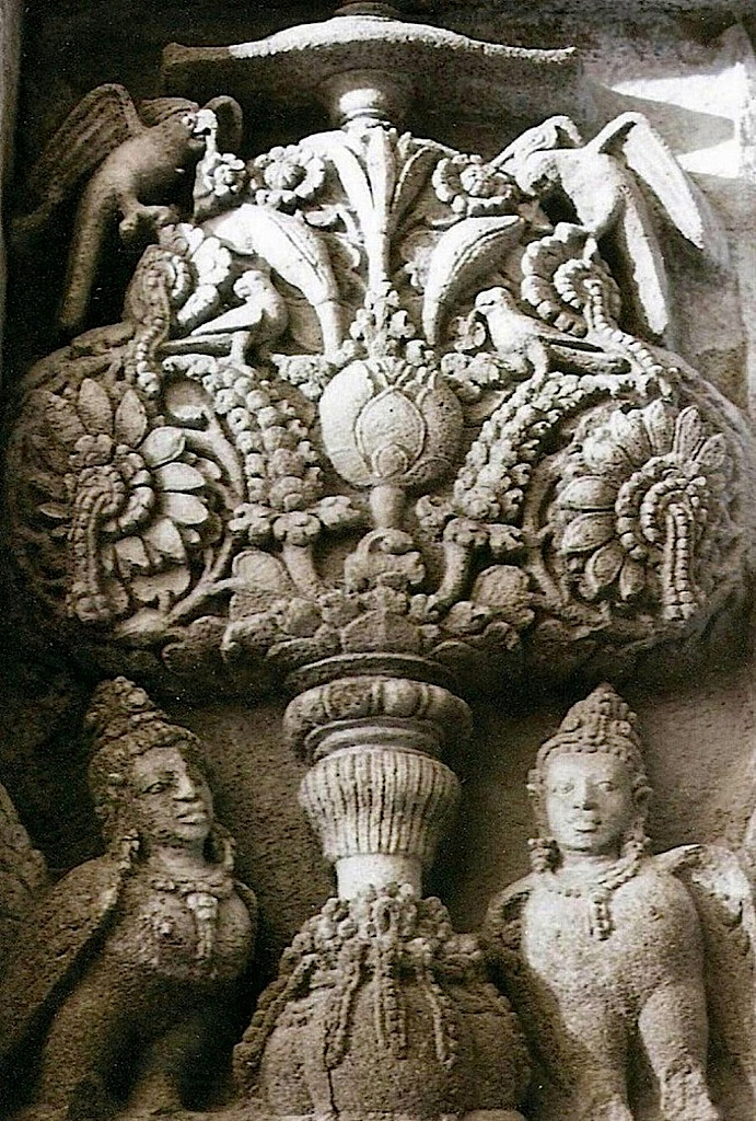 Relief at Prambanan temple compound.Prambanan wall relief # 04